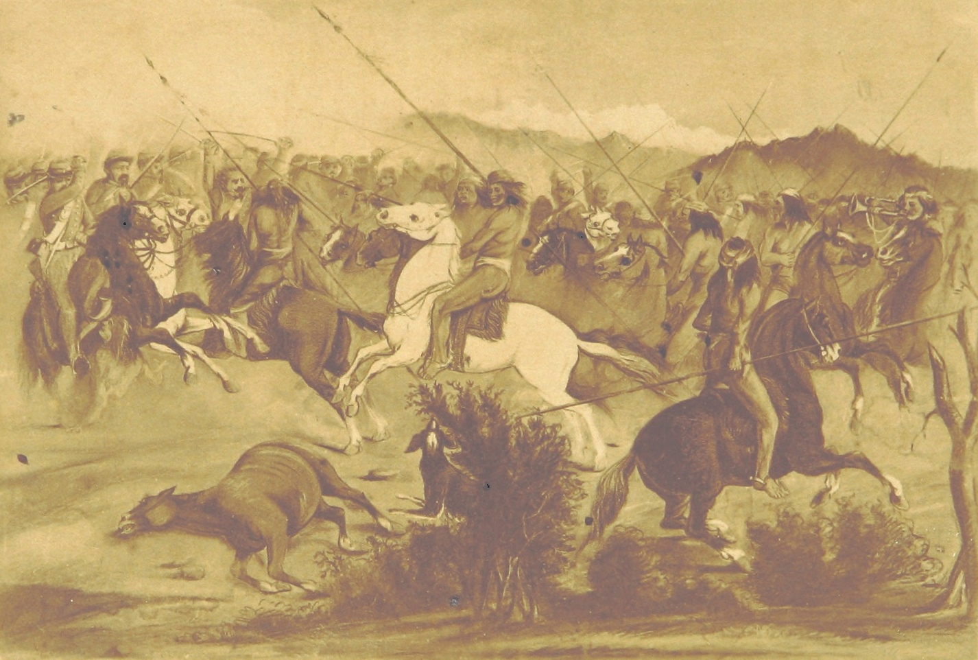 " Historia de la Araucania. Combate de Traiguén el 20 de abril de 1868 entre la Division del Coronel don Pedro Lagos i el Ejército del el Cacique Quilapan.- Retirada heroica de Lagos." Image taken from: Title: "Crónica de la Araucanía, etc" Author: LARA, Horacio. Shelfmark: "British Library HMNTS 9771.eee.16." Page: 719 Place of Publishing: Santiago de Chile Date of Publishing: 1889 Issuance: monographic Identifier: 002076917 Note: The colours, contrast and appearance of these illustrations are unlikely to be true to life. They are derived from scanned images that have been enhanced for machine interpretation and have been altered from their originals. Following this or the link above will take you to the British Library's integrated catalogue. You will be able to download a PDF of the book this image is taken from, as well as view the pages up close with the 'itemViewer'. Click on the 'related items' to search for the electronic version of this work. Click here to see all the illustrations in this book and click here to browse other illustrations published in books in the same year. Please click on the tags shown on the right-hand side for other ways to browse the illustrations.